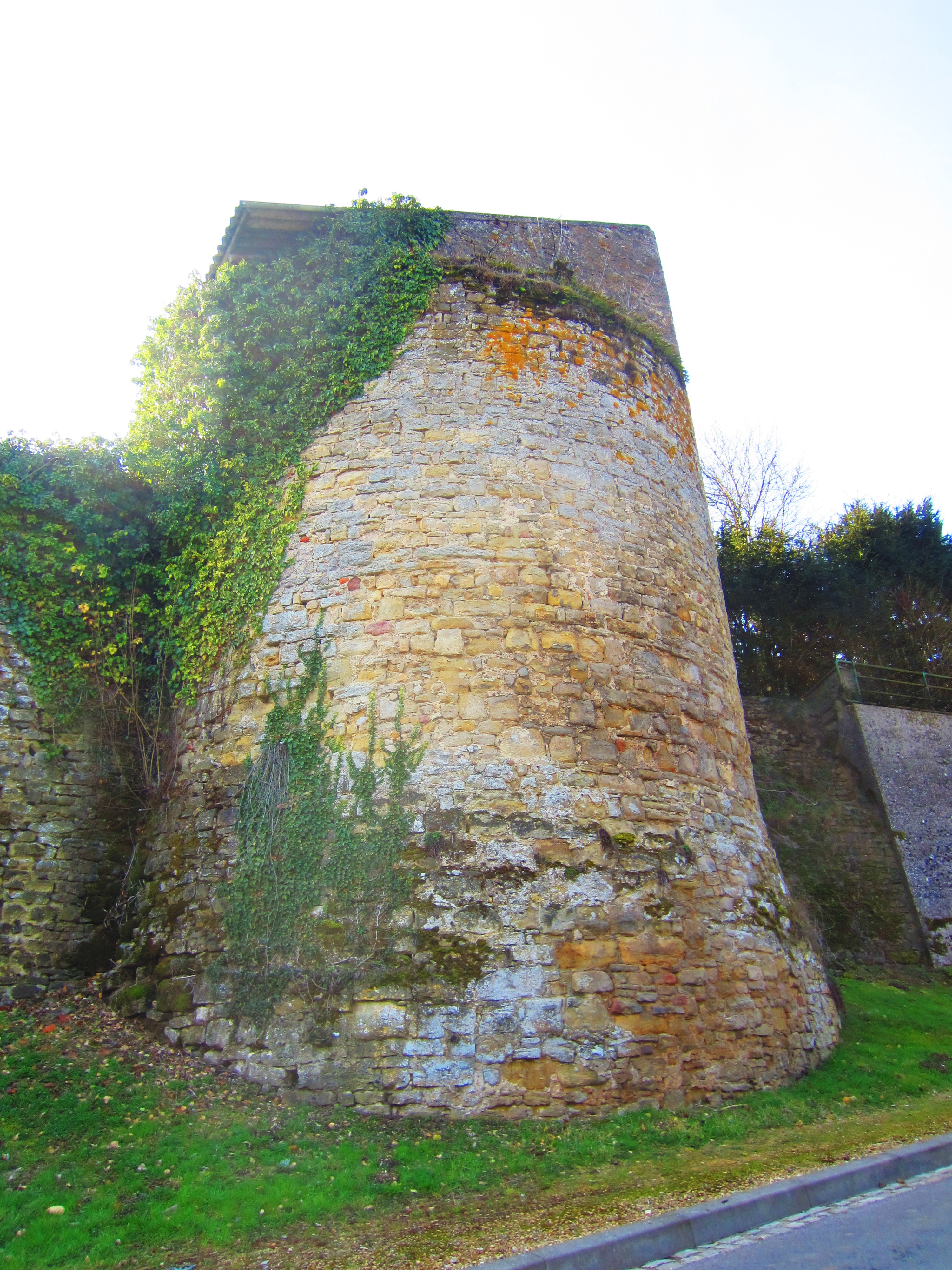 Roussy Bourg castle tower